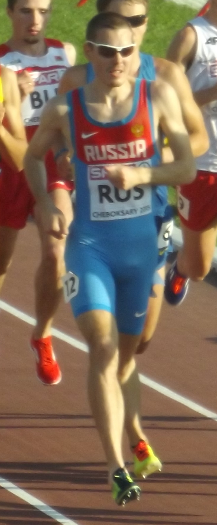 Valentin Smirnov competing at the 2015 European Team Champioships